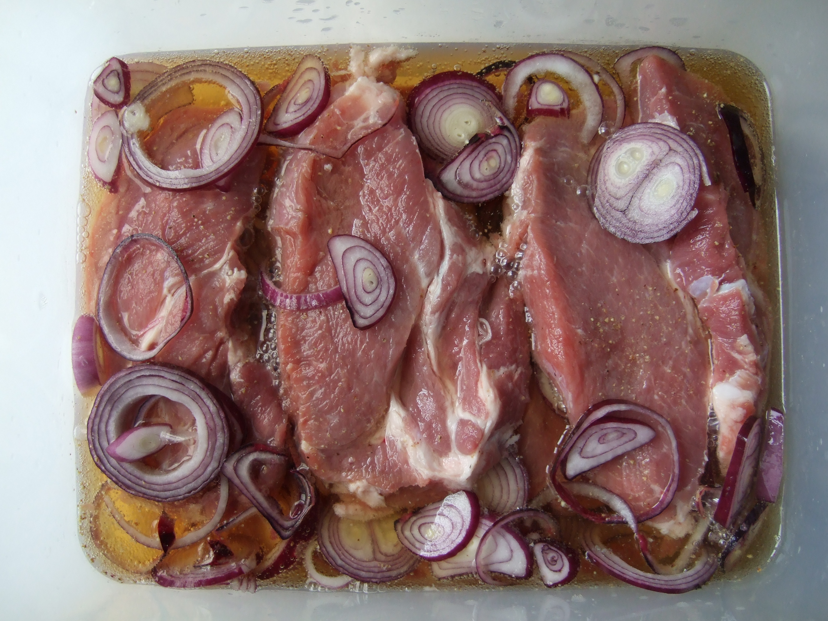 Thüringer Rostbrätel in marinade; closeup.